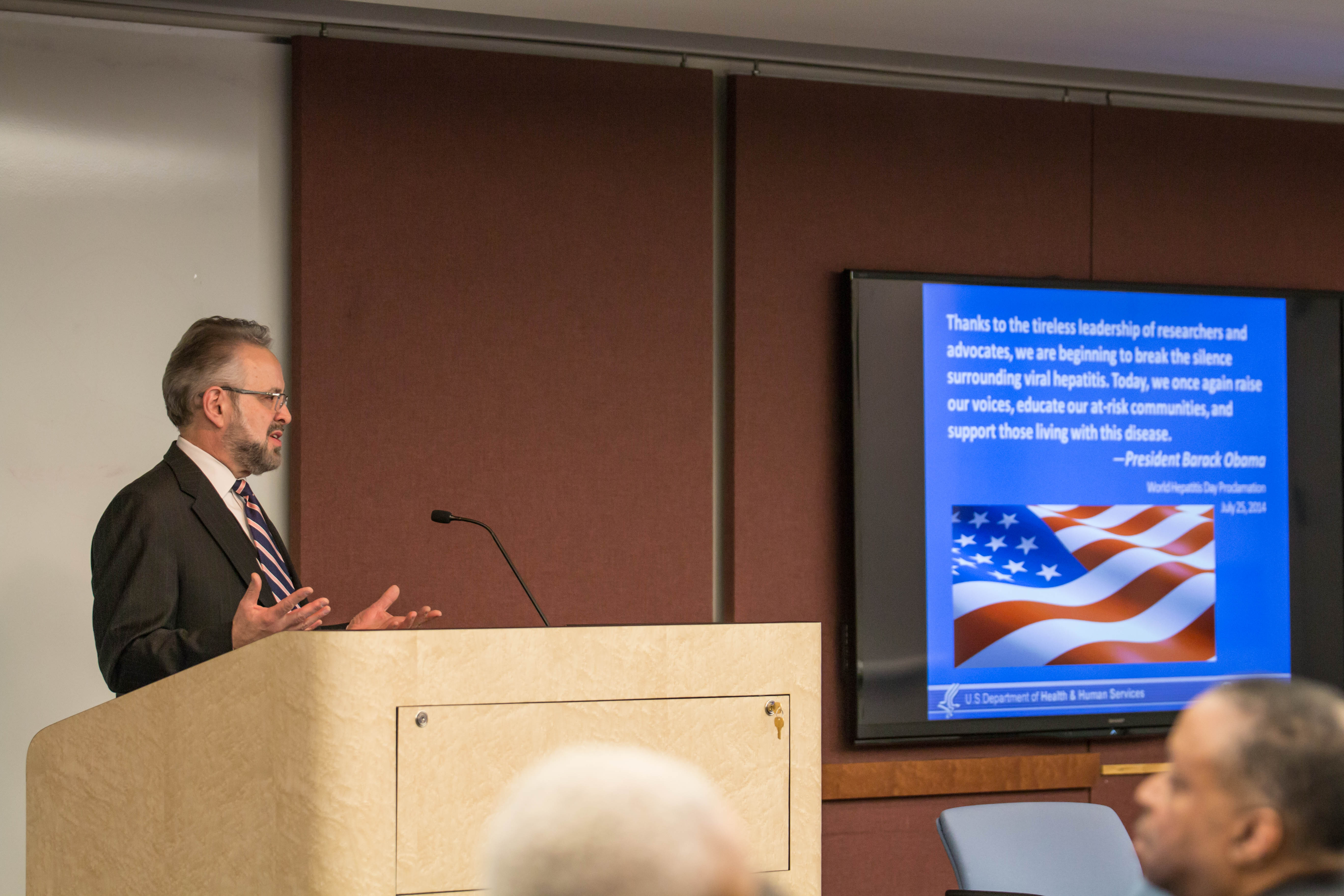 Forum on HCV in African American Communities